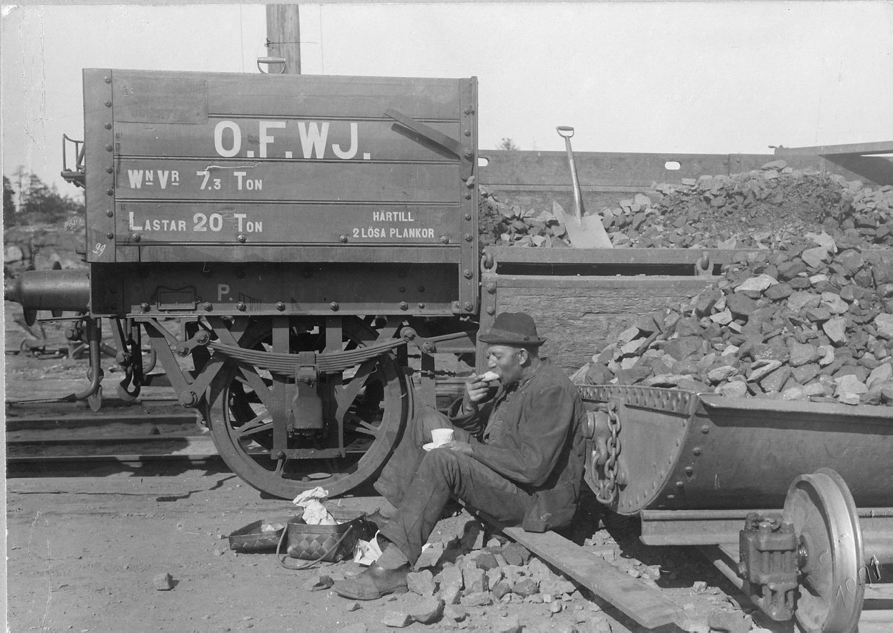 Mineworker taking a coffebreak in the port of Oxelösund, Sweden 1901.